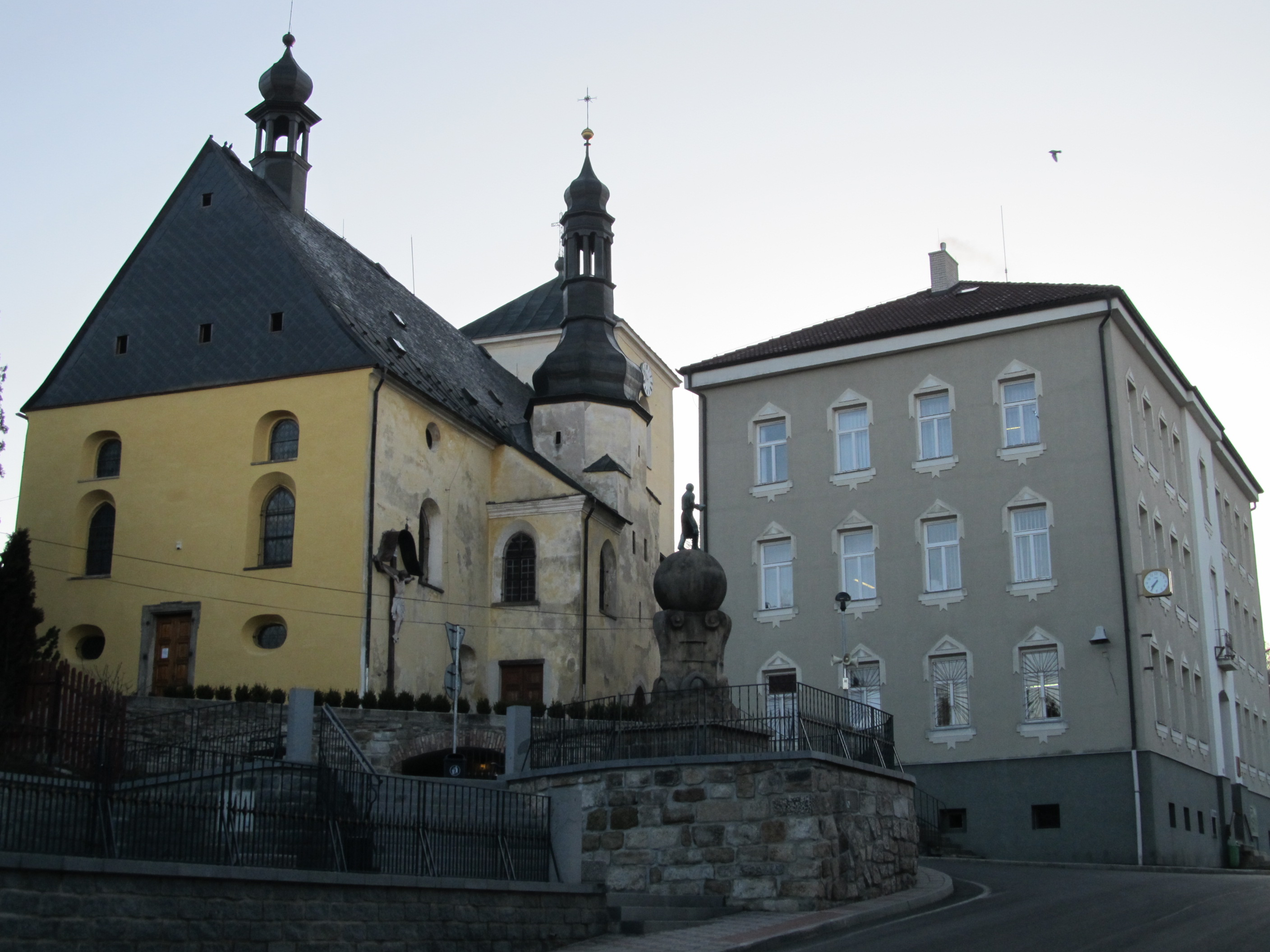 St. Ondřej church (cultural monument) and municipal house in Luby u Chebu